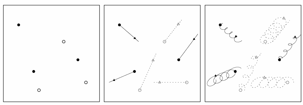 Hipparcos satellite: principles of measurement